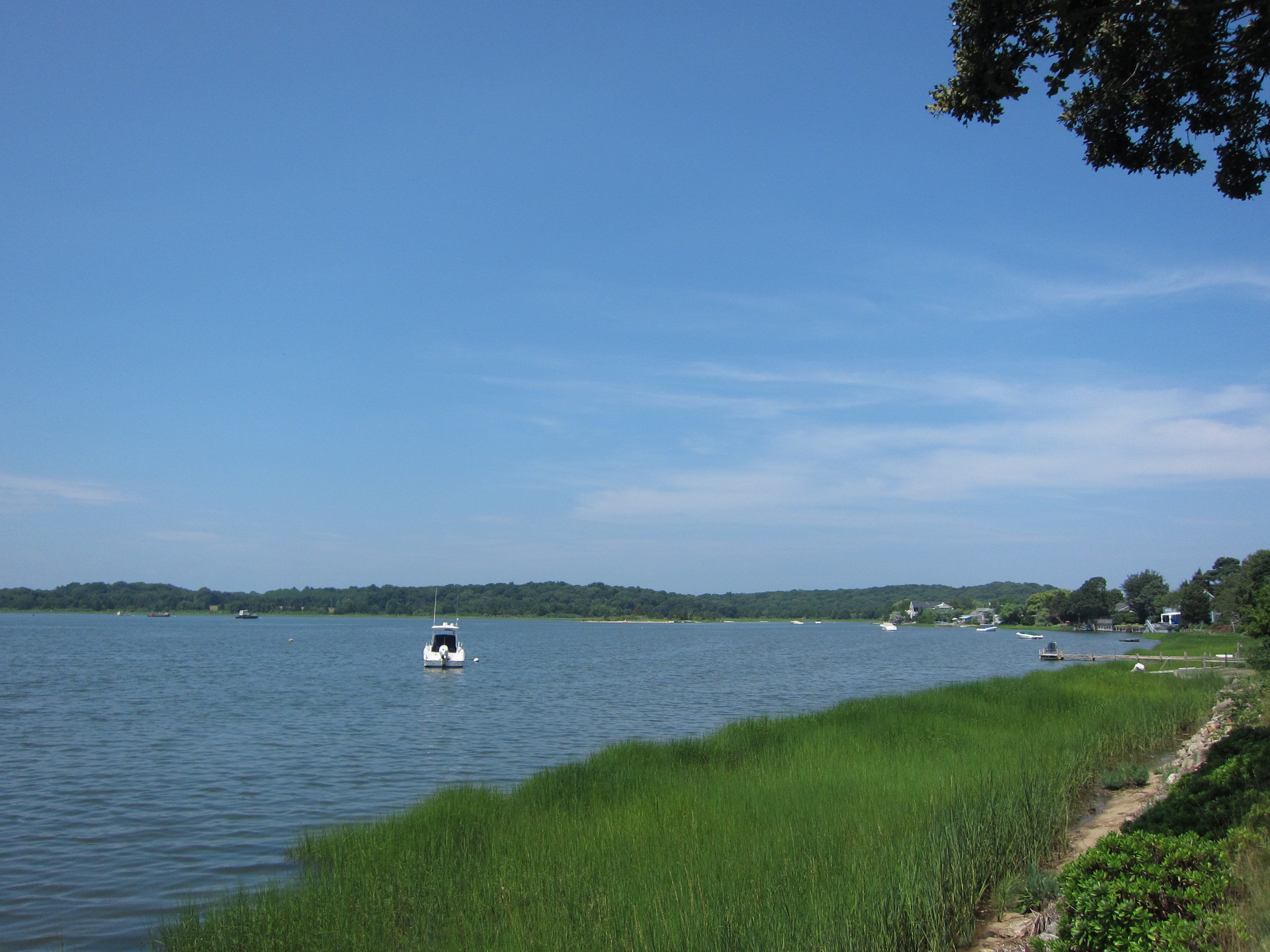 North Sea Harbor in Southampton, New York. Photograph taken from near Towd Point Road, Southampton.